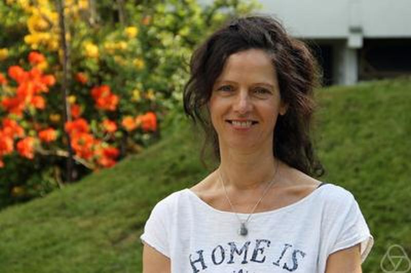 Sara van de Geer, Oberwolfach 2015